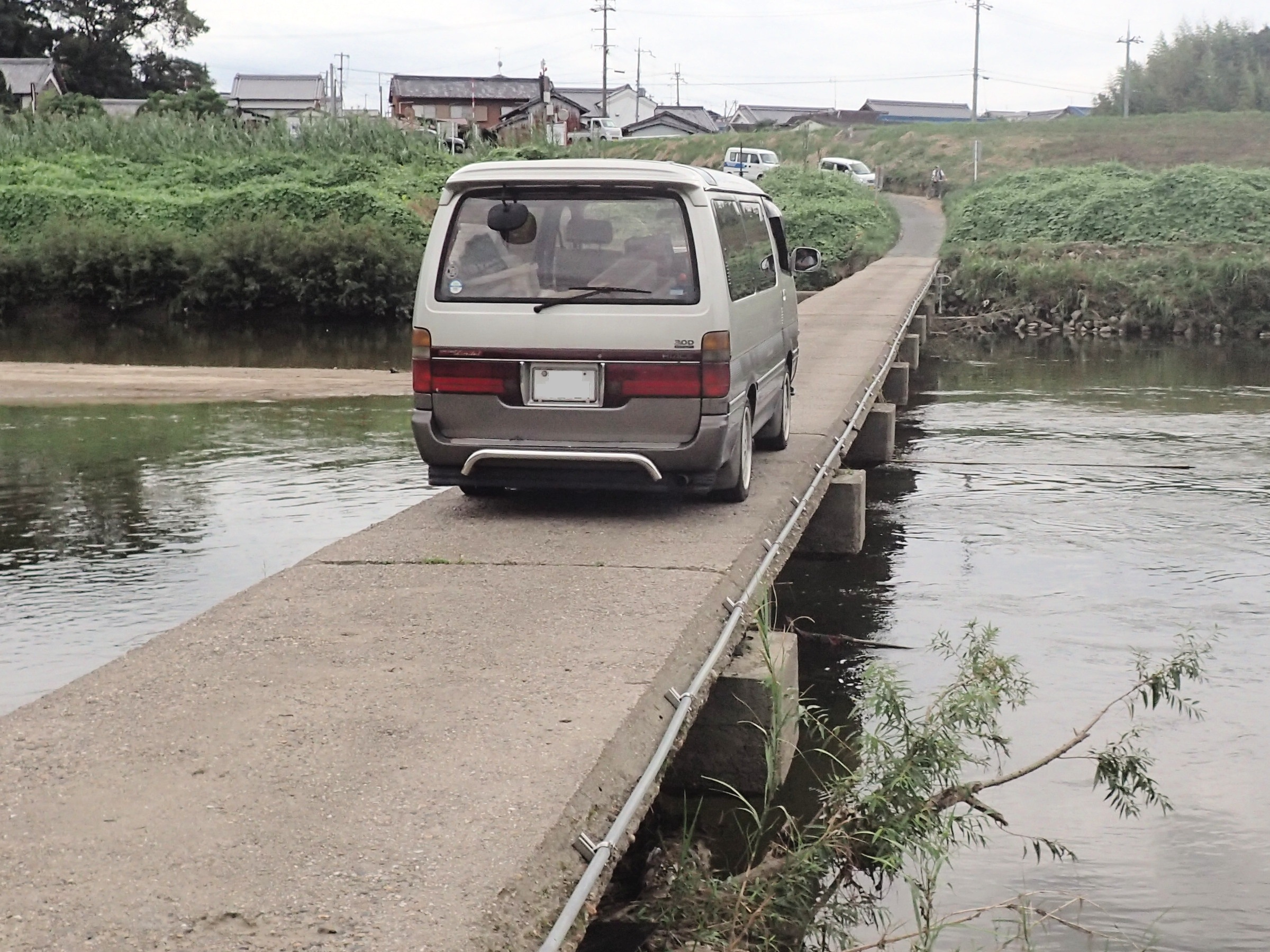 Ooshiro-bashi, Low water crossing of Yamato-River in Nara Japan.